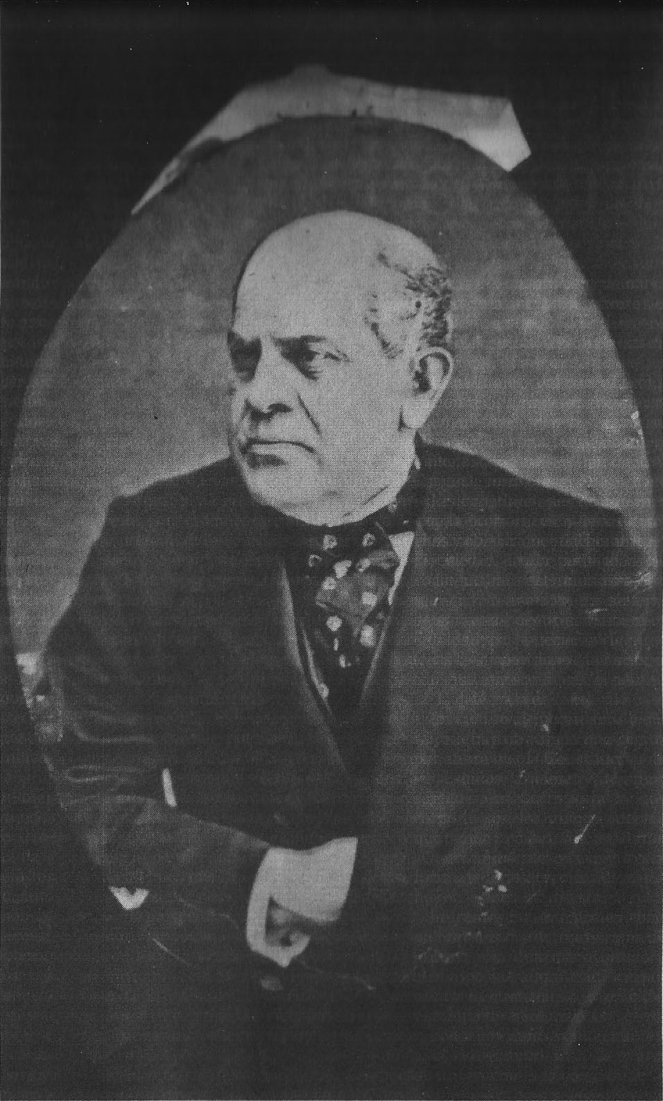 Portrait of Domingo Faustino Sarmiento made in Lima, Peru, in the Courret Brothers photography studio.